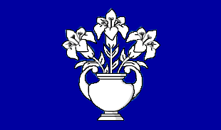 Flag of the city of Dundee